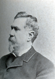 Josiah Patterson, US Representative from Tennessee